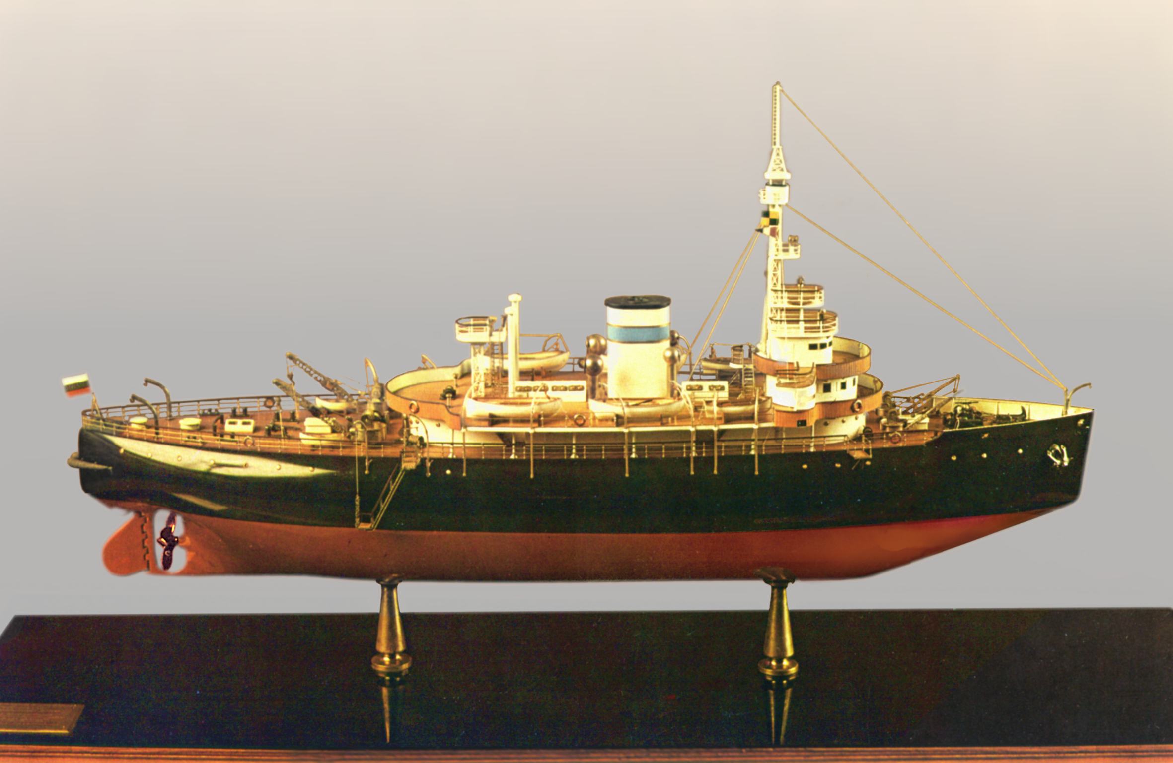 Model of icebreaker by Mendeleev's construction.